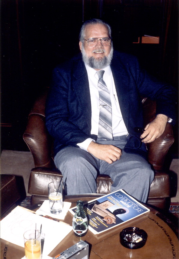 Jay Miner at the 1990 Amiga Developers Conference in Paris, France, on February 9, 1990 Copyright 1990 Michael C. Battilana and Cloanto IT srl [1] Attribution: Copyright 1990 Michael C. Battilana and Cloanto IT srl